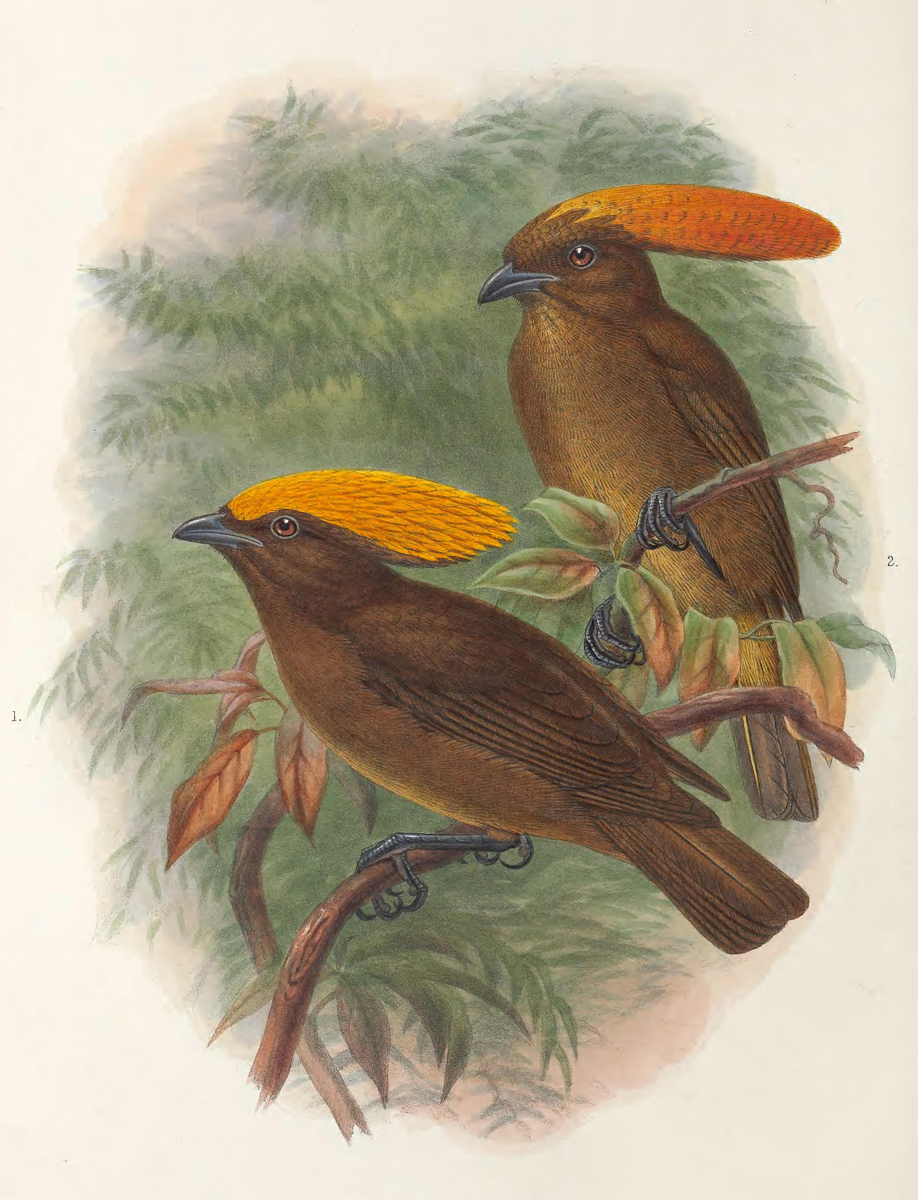 Amblyornis flavifrons & Amblyornis inornata - Monograph of the Paradiseidae, or Birds of Paradise, and Ptilonorhynchidae, or Bower-birds. v.2 (1891-1898).